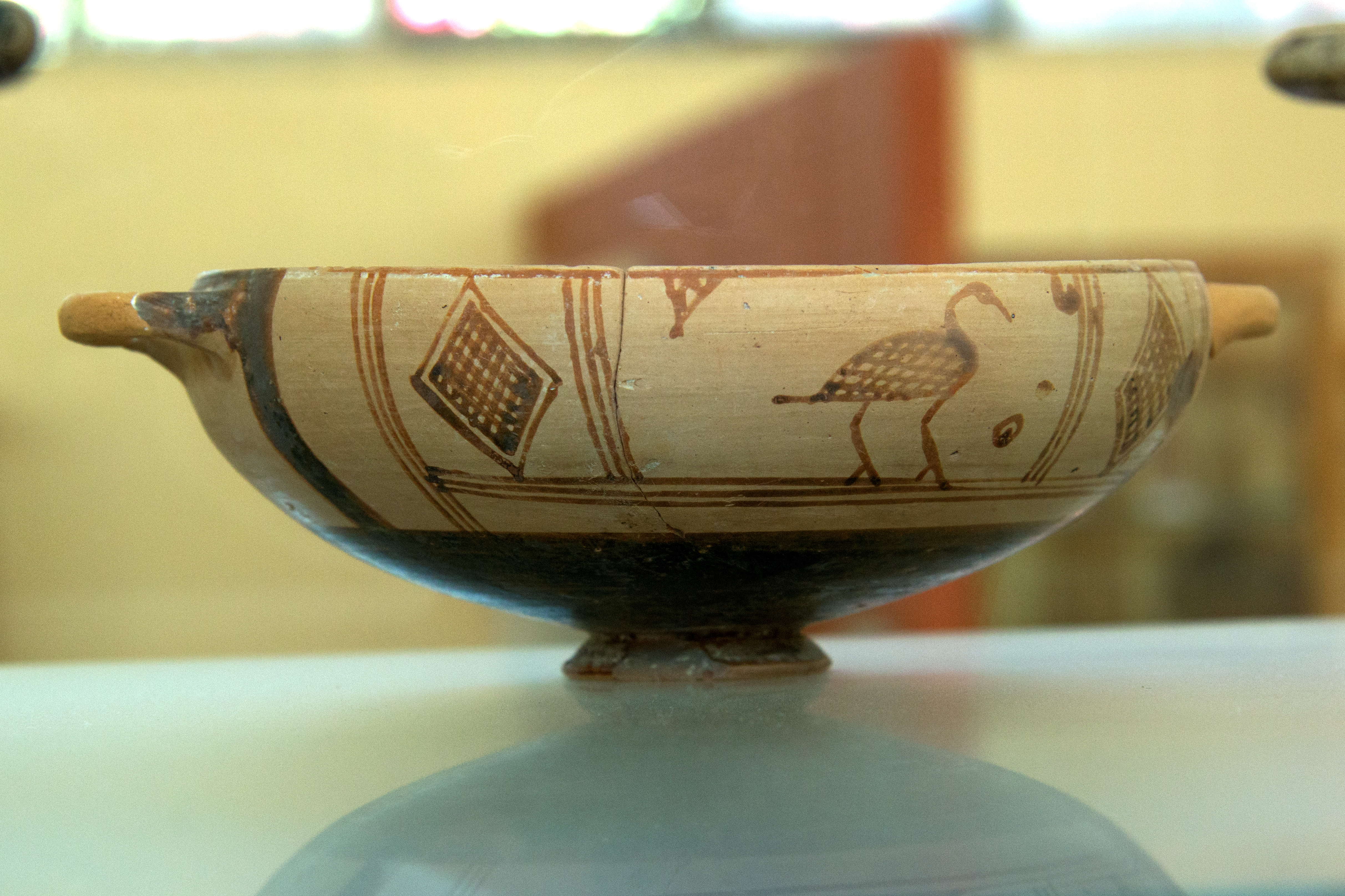 Ancient Greek geometric pottery from Paros. Probably end of 8th century BC. Archaeological museum of Paros.